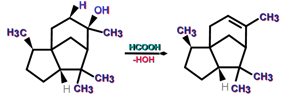 Cedrol dehydration to cedrene